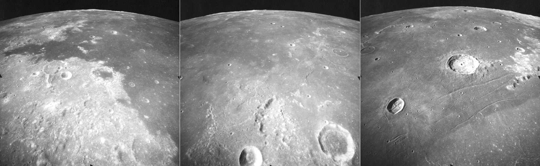 These are three views of Mare Tranquillitatis on the moon, taken by the mapping camera of the Apollo 17 mission in 1972, facing south-southwest from an average altitude of 111 km on Revolution 36 of the mission. At the left is the east side of Mare Tranquillitatis, with the craters Franz (bottom right), Lyell (dark floor, right of center), and Taruntius (upper left). The "bay" of dark mare (basalt) at left is Sinus Concordiae, with "islands" of older light highland material. At right is the crater Cauchy, which lies between the Rupes Cauchy and Cauchy rille. The center photo shows the central mare with craters Vitruvius (lower right) and Gardner (bottom center). At the horizon are lighter highlands at the southern margin of the mare, near the Apollo 11 landing site. The crater Jansen is visible at the edges of both the center and right photos. The right photo shows the western mare, with the craters Dawes (lower left) and the large Plinius (43 km diameter), with the Plinius Rilles in the foreground. These photos were taken within minutes of each other as the Command Module America orbited the moon. The sun elevation drops from 46 degrees at left to 30 degrees at right.